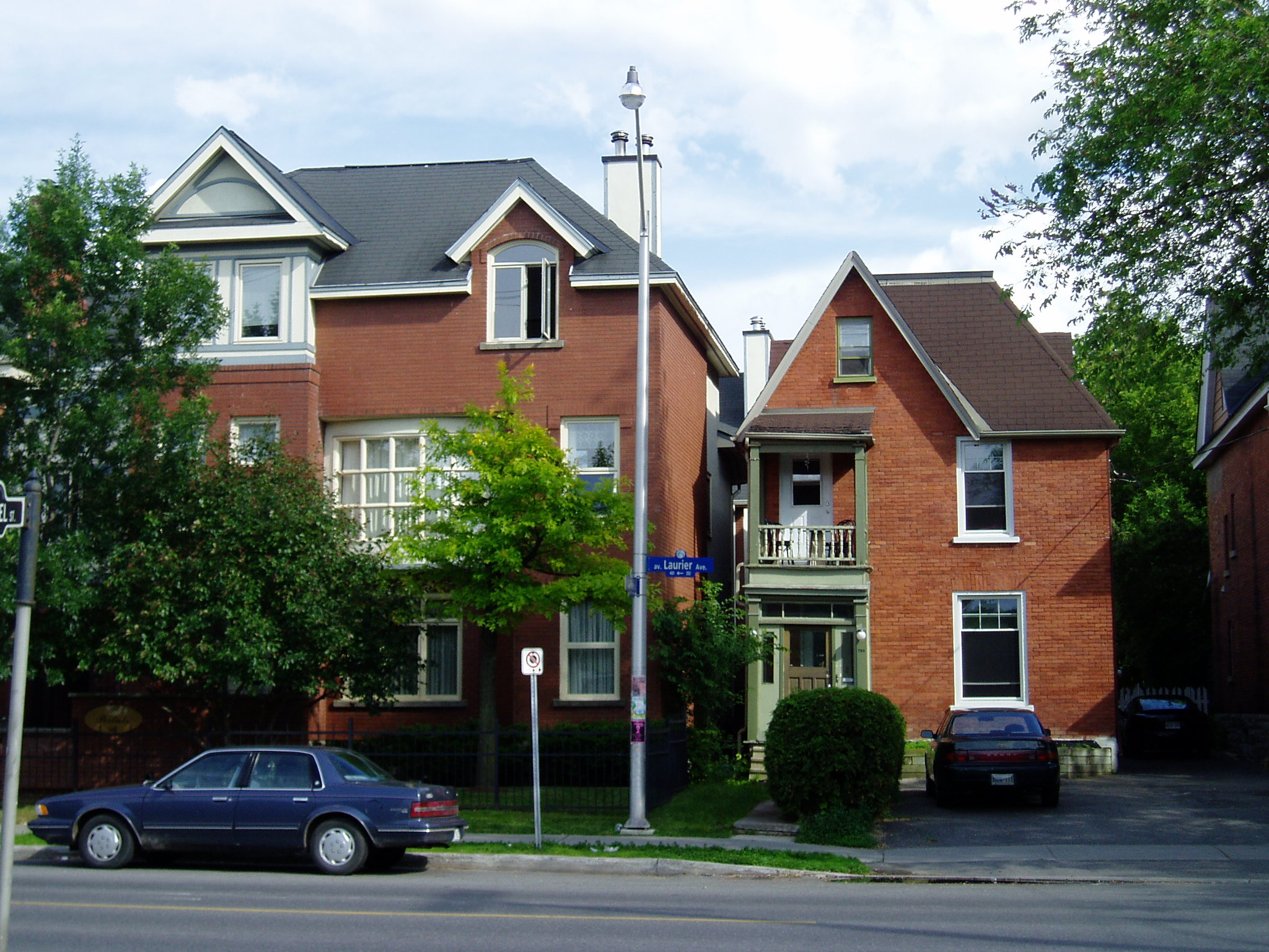 Taken by SimonP